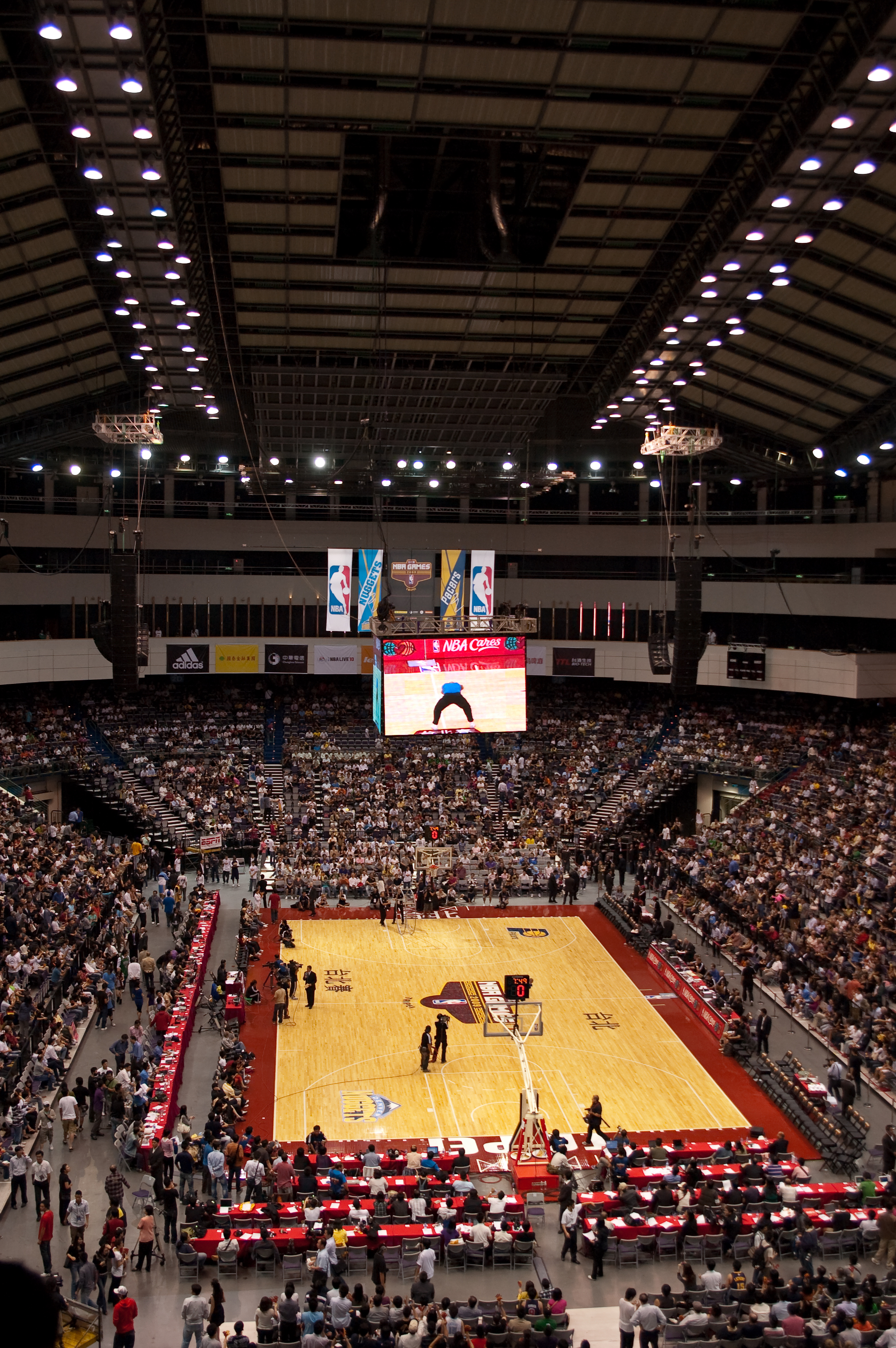 Taipei Arena before an National Basketball Association preseason game between the Indiana Pacers and the Denver Nuggets.